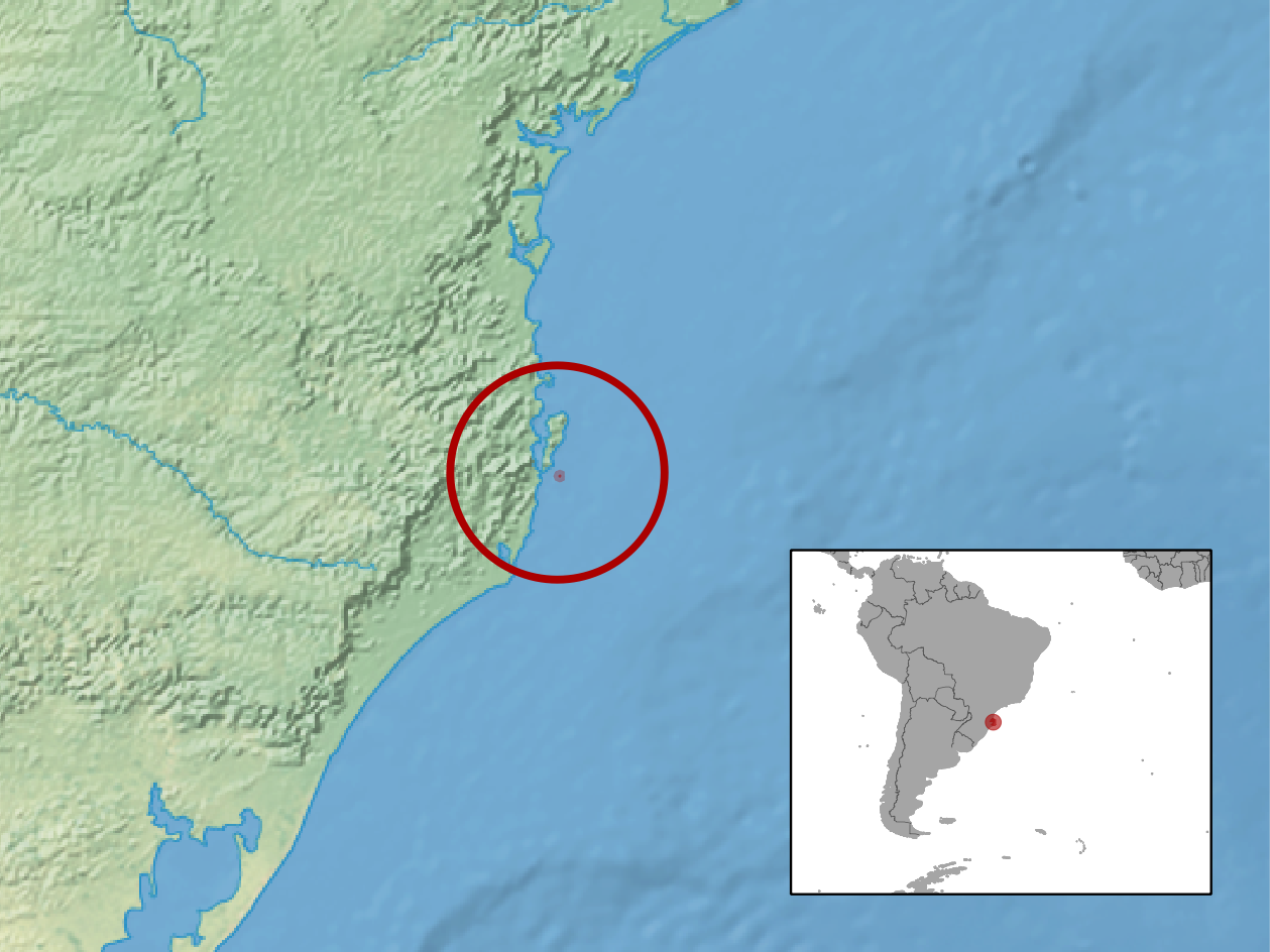 geographic distribution of Cavia intermedia